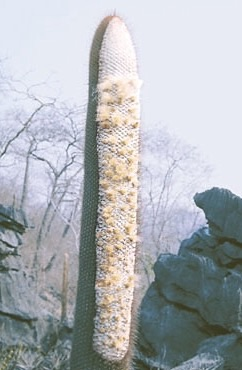 N Goias Brasil